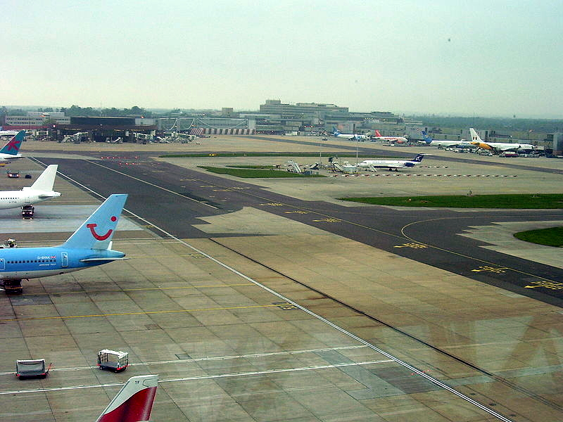 View of Gatwick's apron (taken from the North Terminal passenger bridge). In the distance is the South Terminal building and its main aircraft piers, including the Satellite pier.